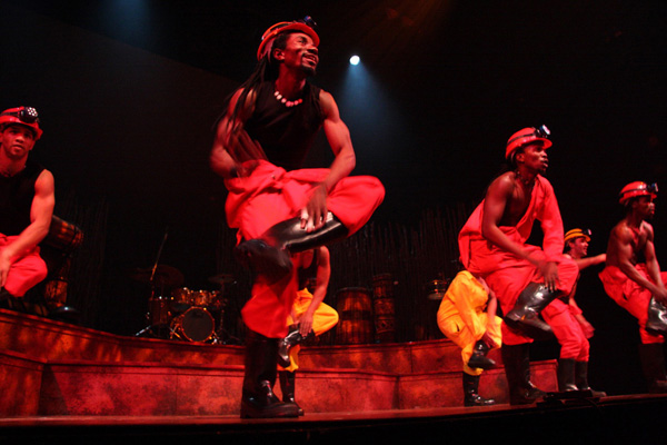 Drum Struck Gumboots